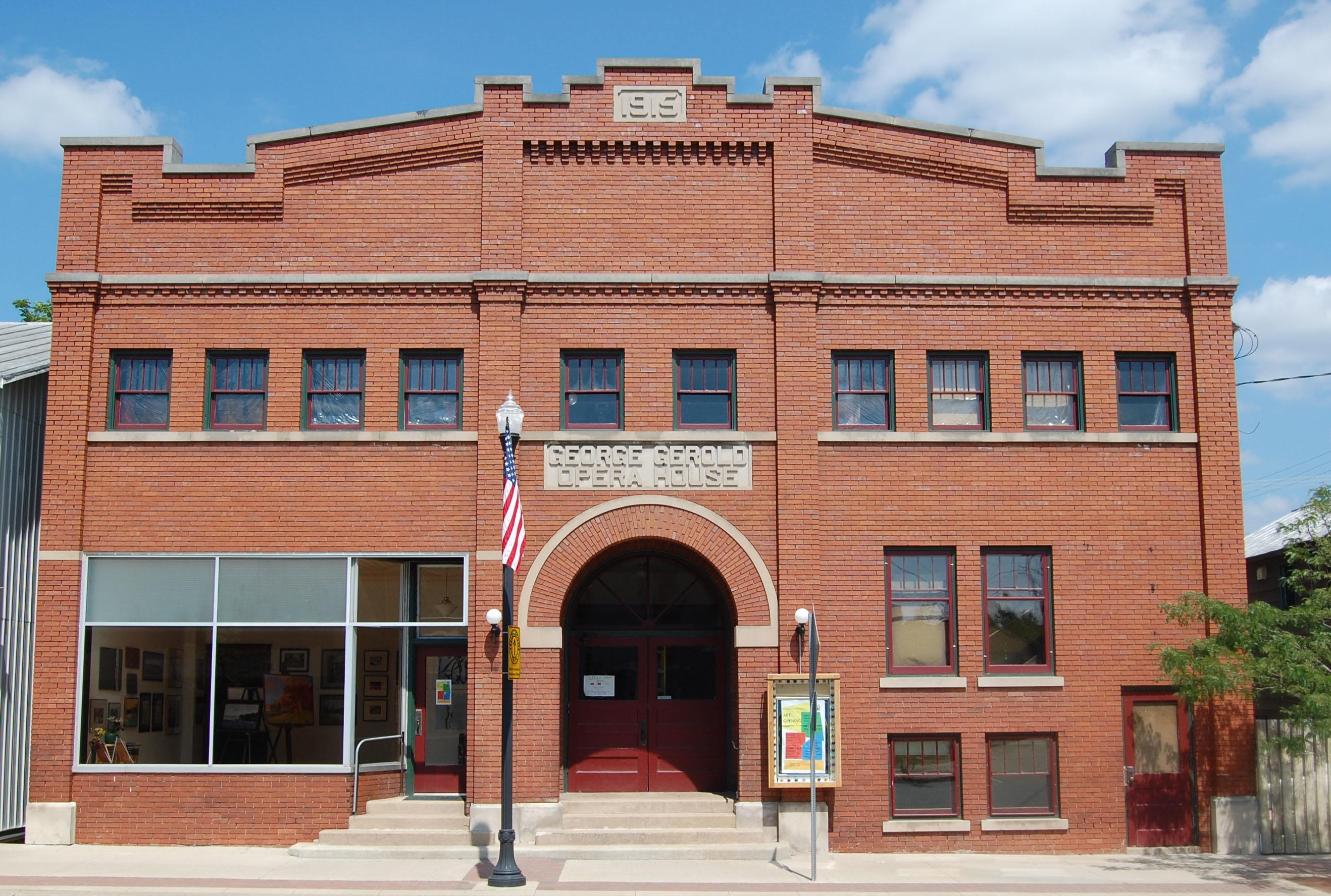 George Gerold Opera House in Weyauwega, Wisconsin